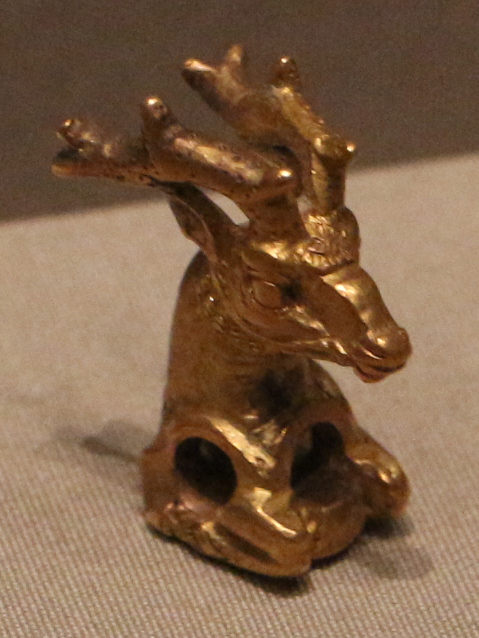 Asian art in the Cleveland Museum of Art